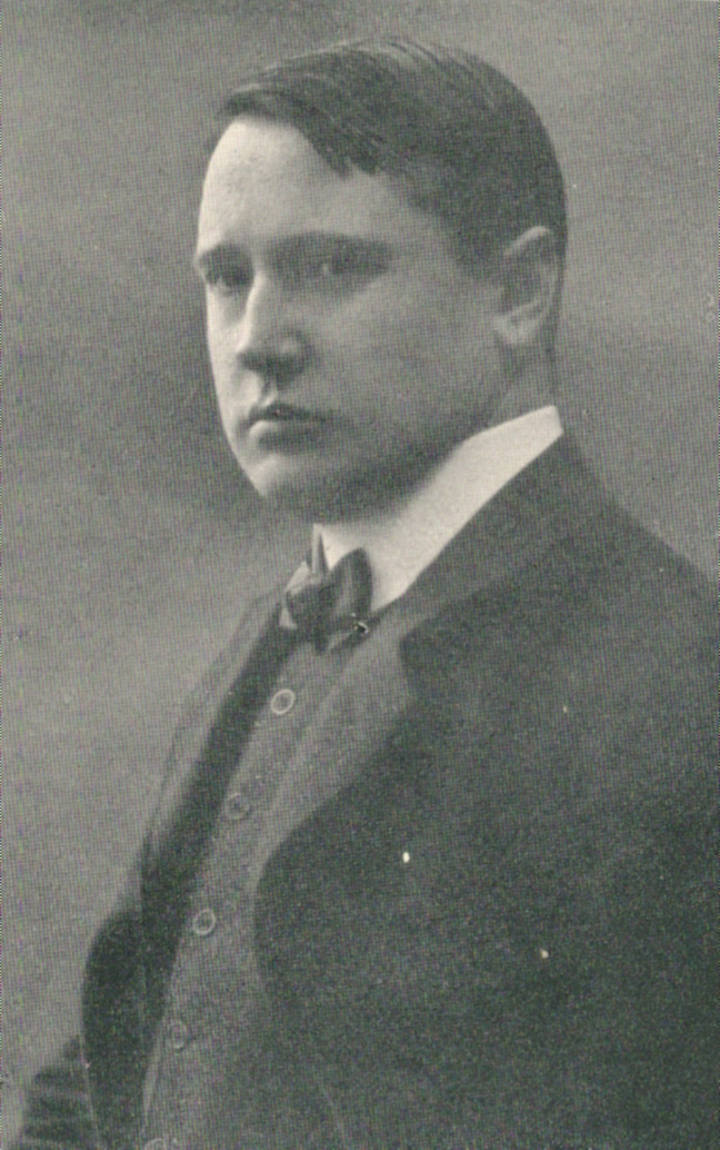 Mathieu Molitor